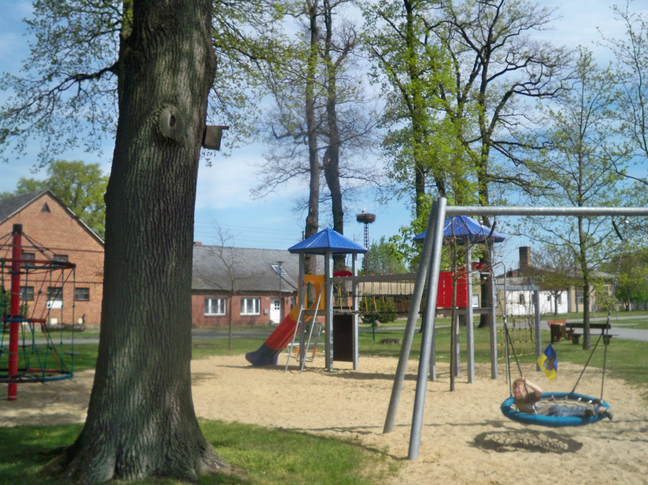 Nettgau, Jübar municipality, Saxony-Anhalt